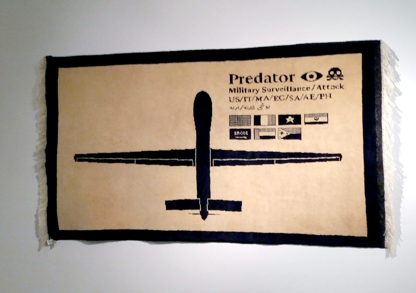 Updating 'war rugs' artist Jim Ricks has made a series of carpets with modern drone images in Afghanistan with local carpet makers since 2015.